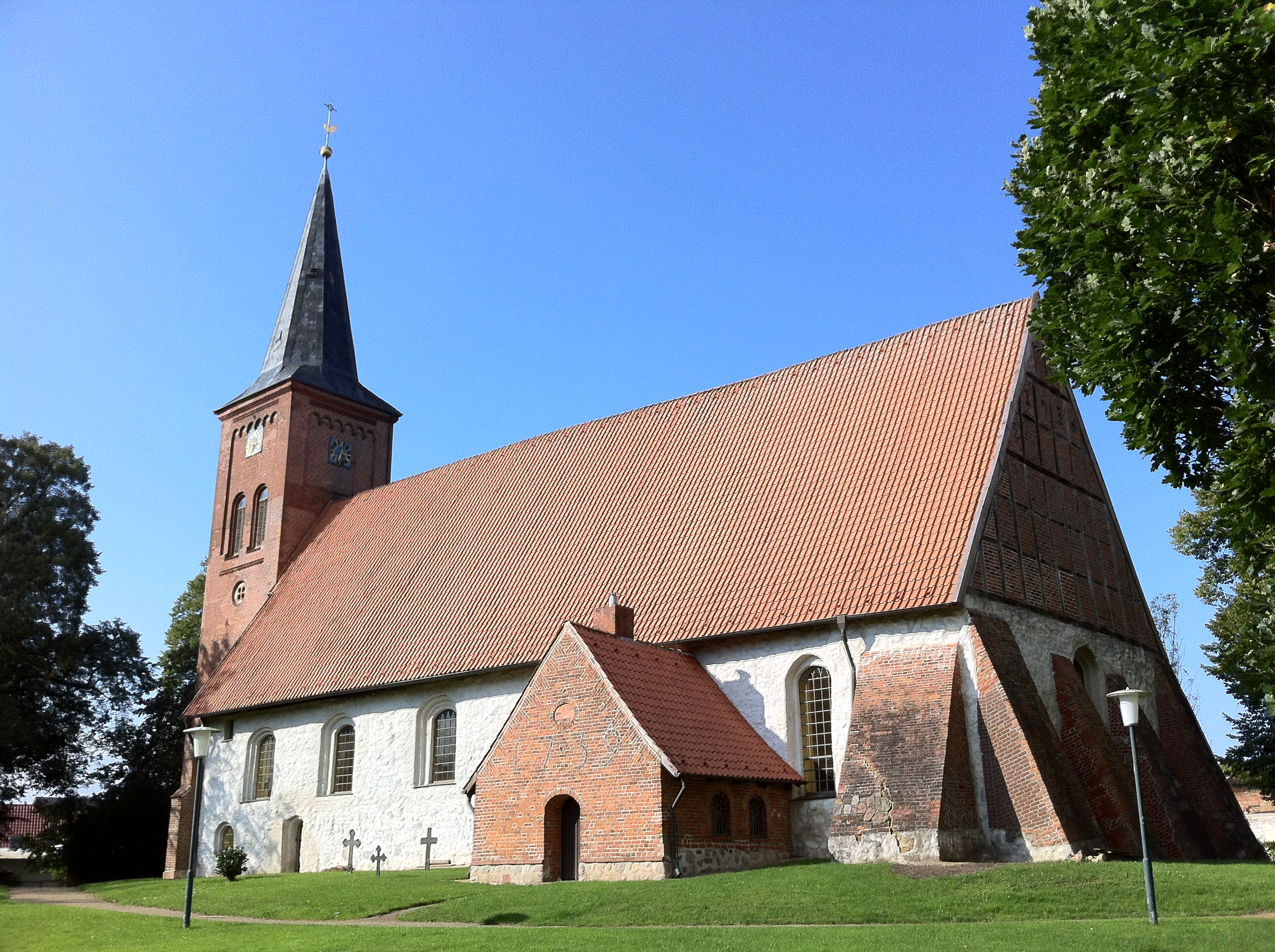 Evangelical Lutheran Vicelin Church St. Jakobi, Bornhoved